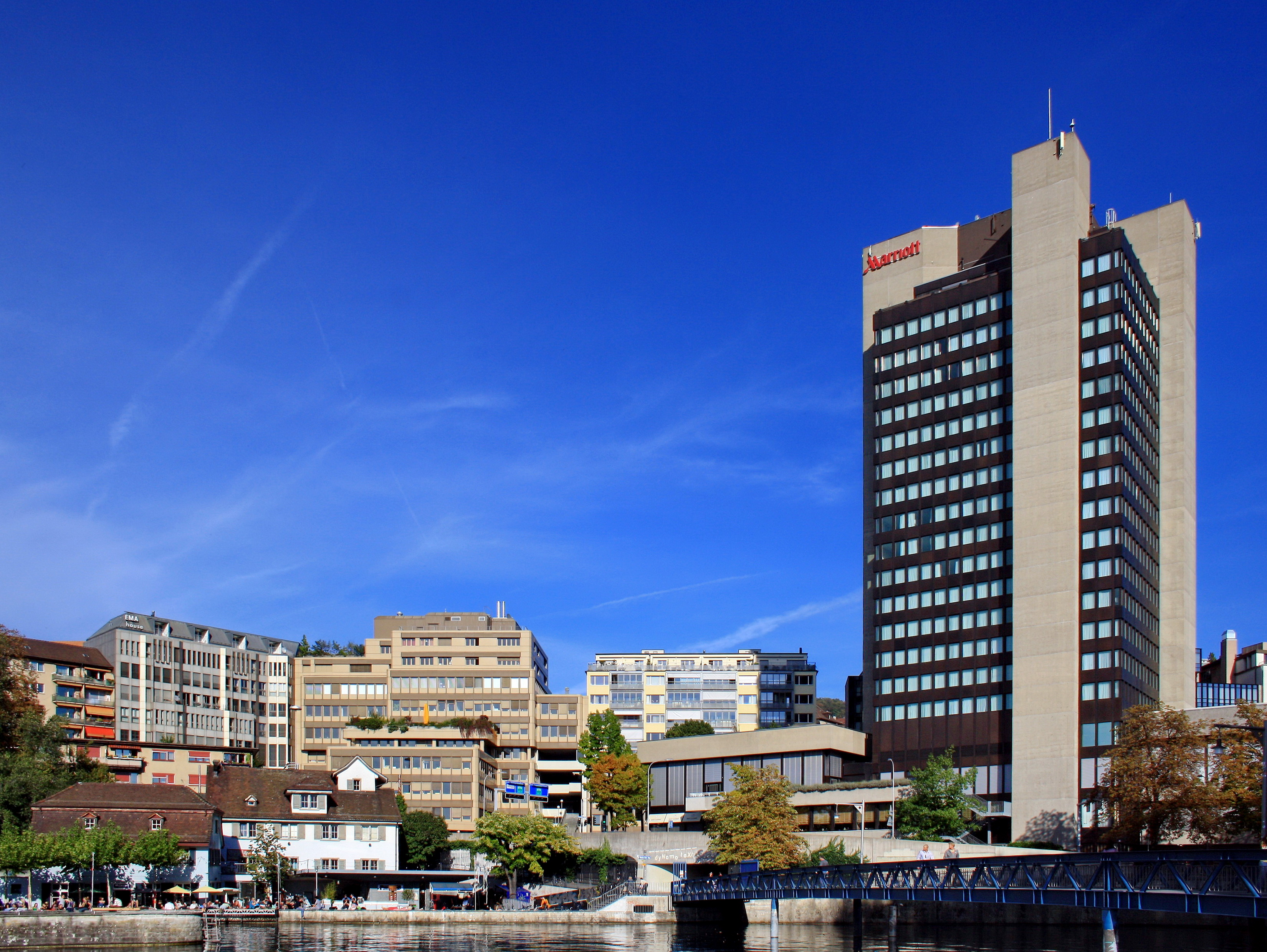 Zürich-Unterstrass (Switzerland) as seen from the James-Joyce-Plateau at Platzspitz park, Dynamo to the left, Hotel Zürich to the right.